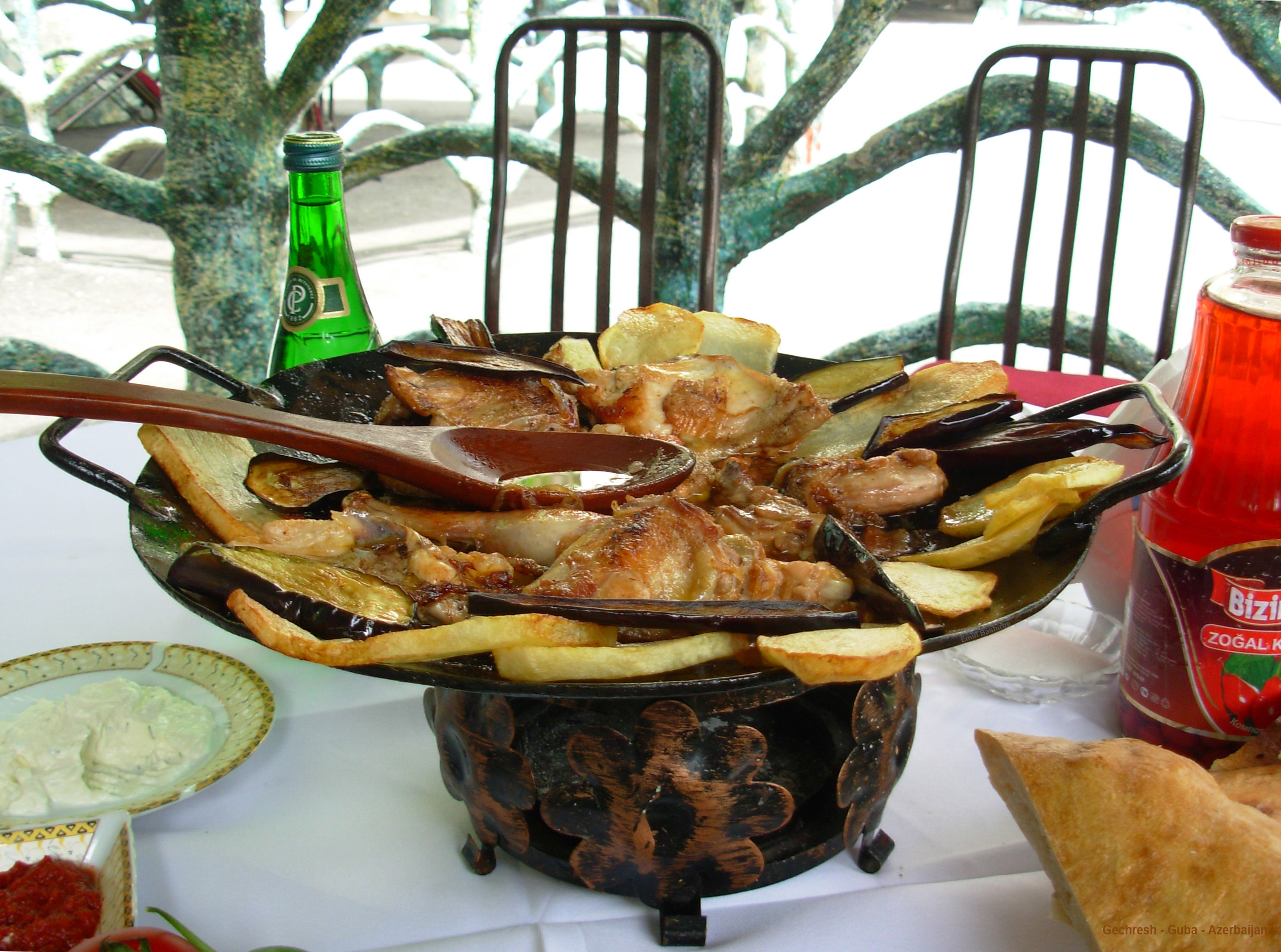 Sadj, Azerbaijani cuisine (Gechresh, Guba)